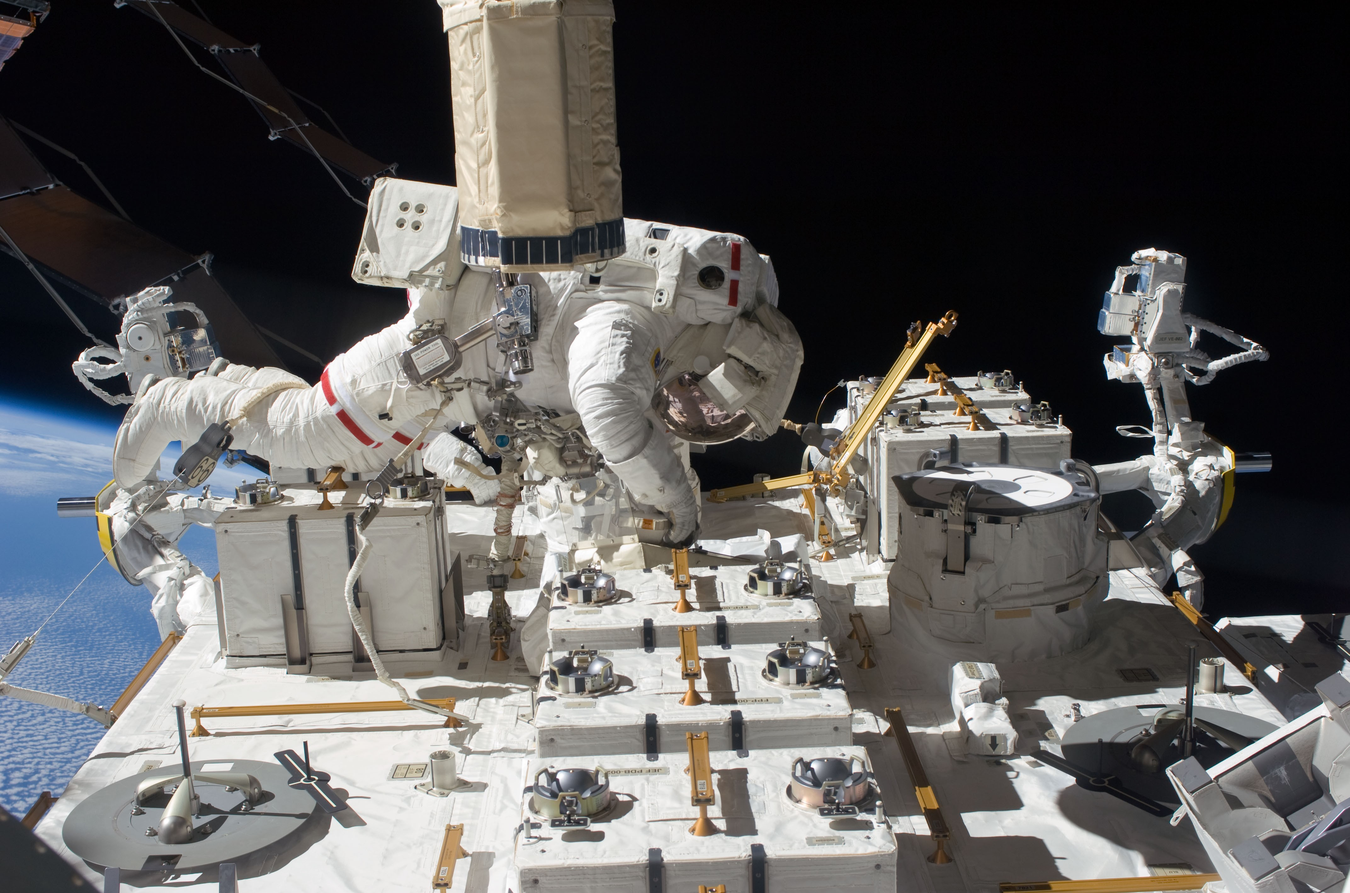 Astronaut Tom Marshburn, STS-127 mission specialist, participates in the mission's fifth and final session of extravehicular activity (EVA) as construction and maintenance continue on the International Space Station. During the four-hour, 54-minute spacewalk, Marshburn and astronaut Christopher Cassidy (out of frame), mission specialist, secured multi-layer insulation around the Special Purpose Dexterous Manipulator known as Dextre, split out power channels for two space station Control Moment Gyroscopes, installed video cameras on the front and back of the new Japanese Exposed Facility and performed a number of "get ahead" tasks, including tying down some cables and installing handrails and a portable foot restraint to aid future spacewalkers.